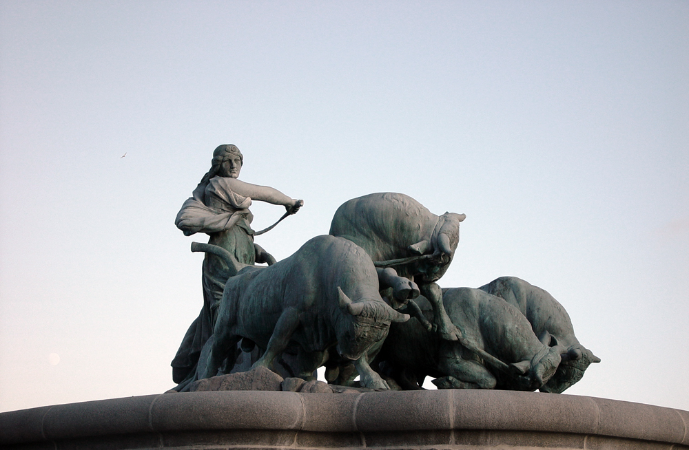 A photograph I took of the Gefion fountain in Copenhagen. Installed in 1908, the fountain was created by Anders Bundgaard (1864-1937).